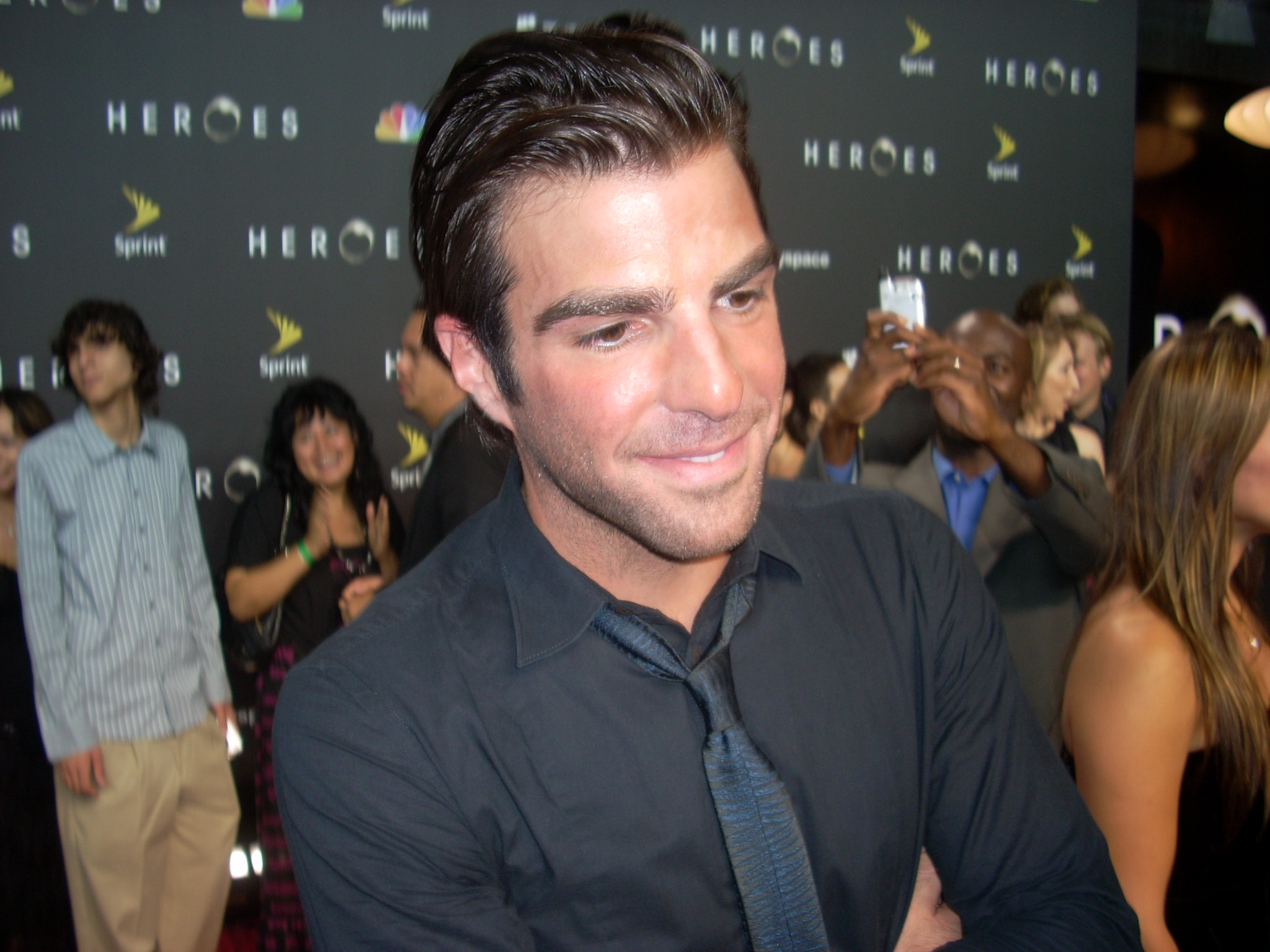 Zachary Quinto "Heroes" Season Three Premiere Party, Edison L.A., Downtown Los Angeles - Sept. 7, 2008